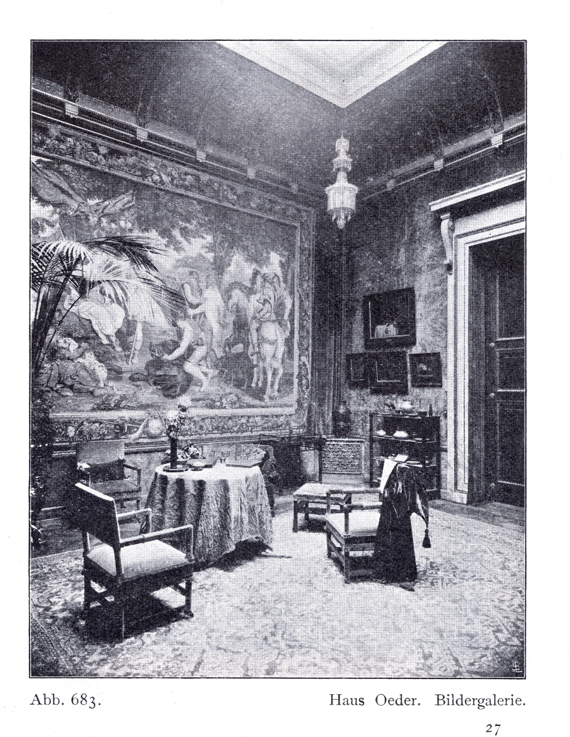 Haus Oeder Jacobistraße, Düsseldorf erbaut 1873 v. Baumeister Lorenz Schillmann,1894 umgebaut v. Jacobs & Wehling,_Bildergalerie.jpg